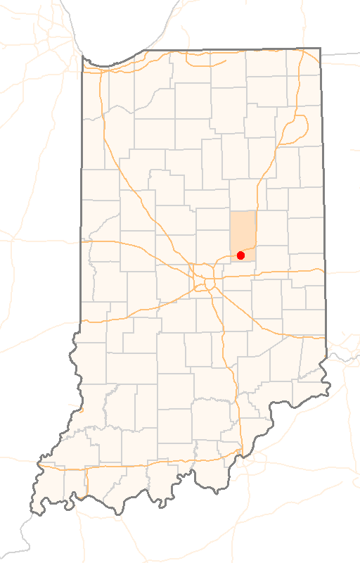 Red Dot map of Indiana, showing the location of Pendleton